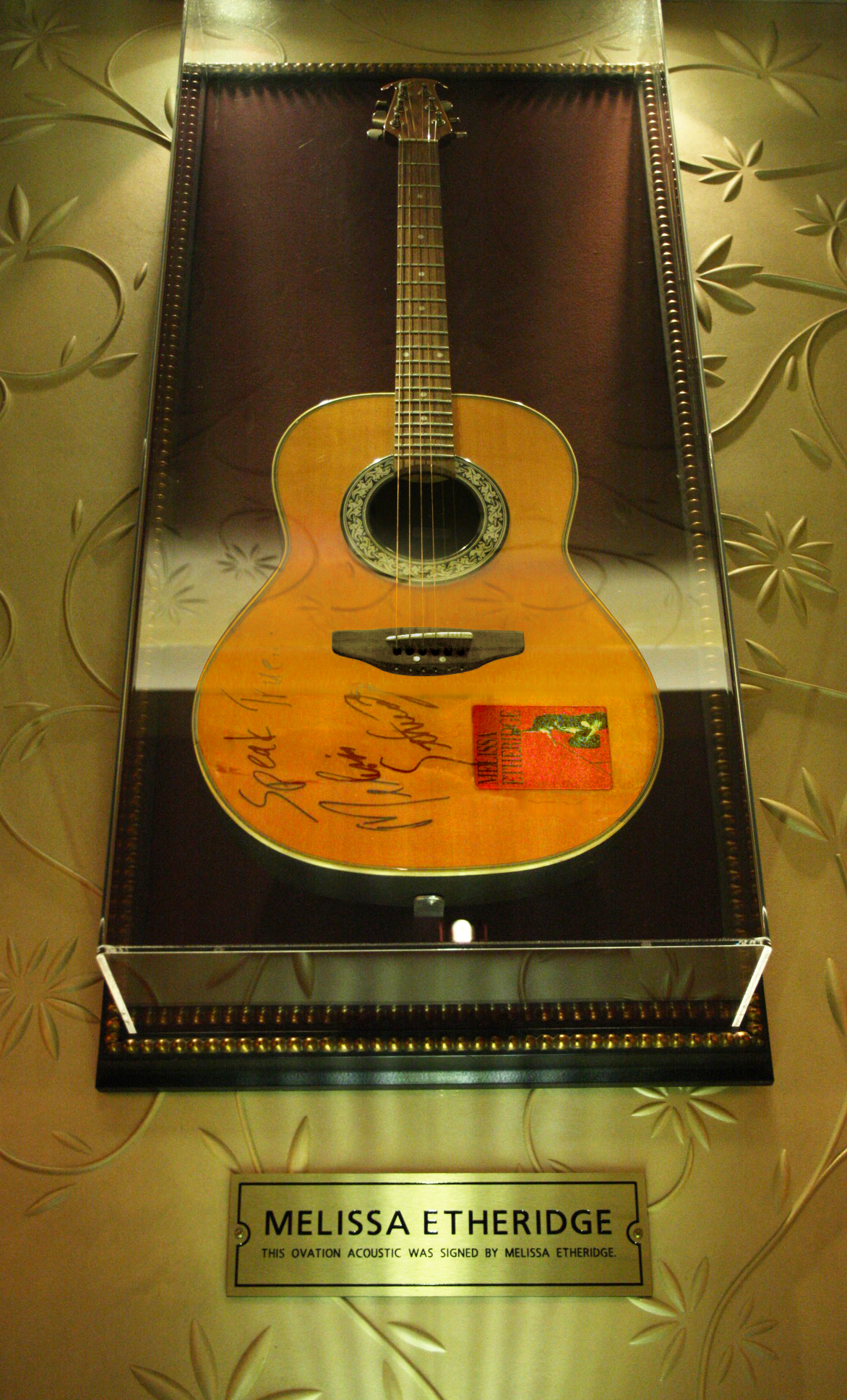 Melissa Etheridge acoustic guitar at the Hard Rock Cafe in Florence.